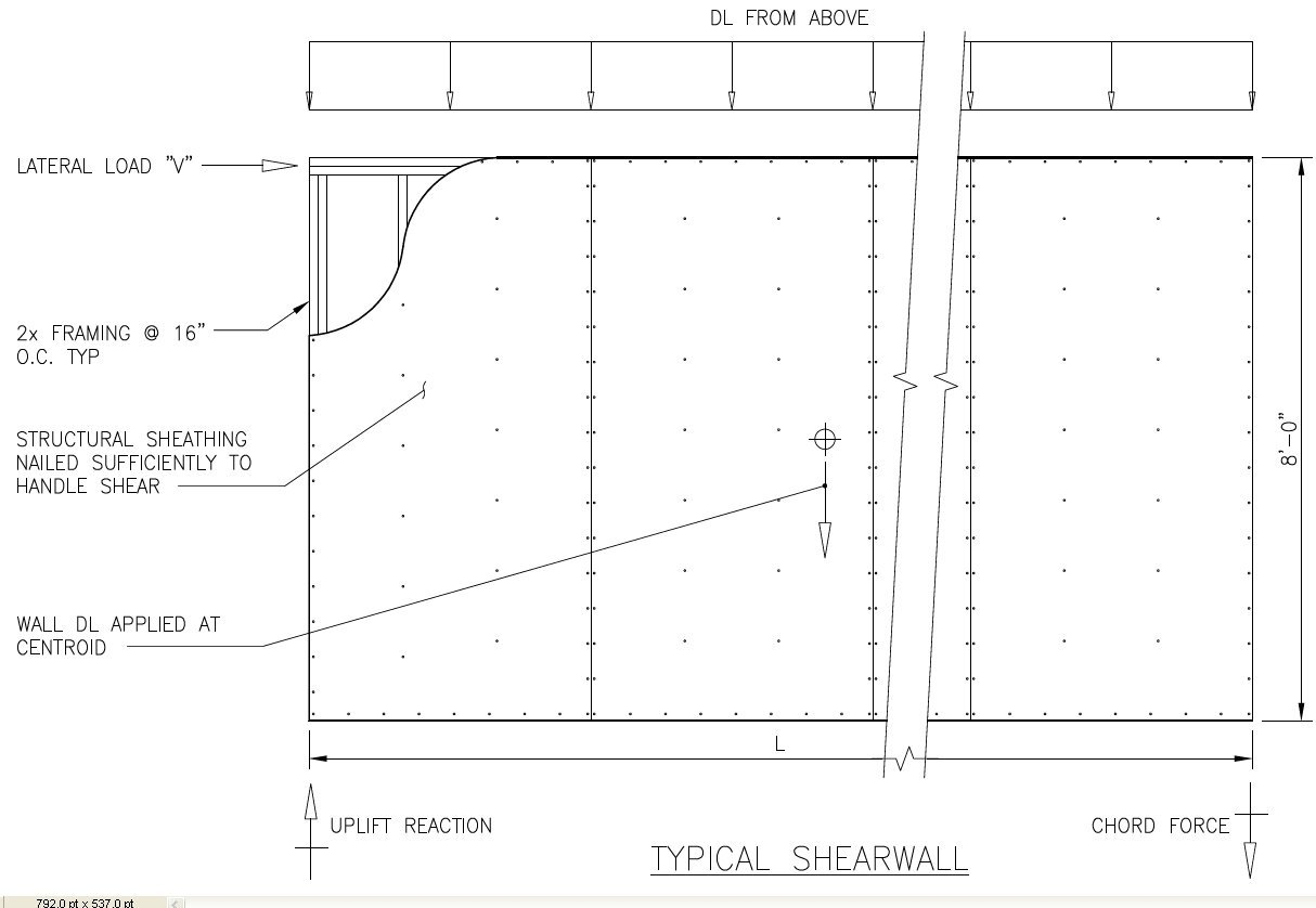 Typical Timber Shearwall